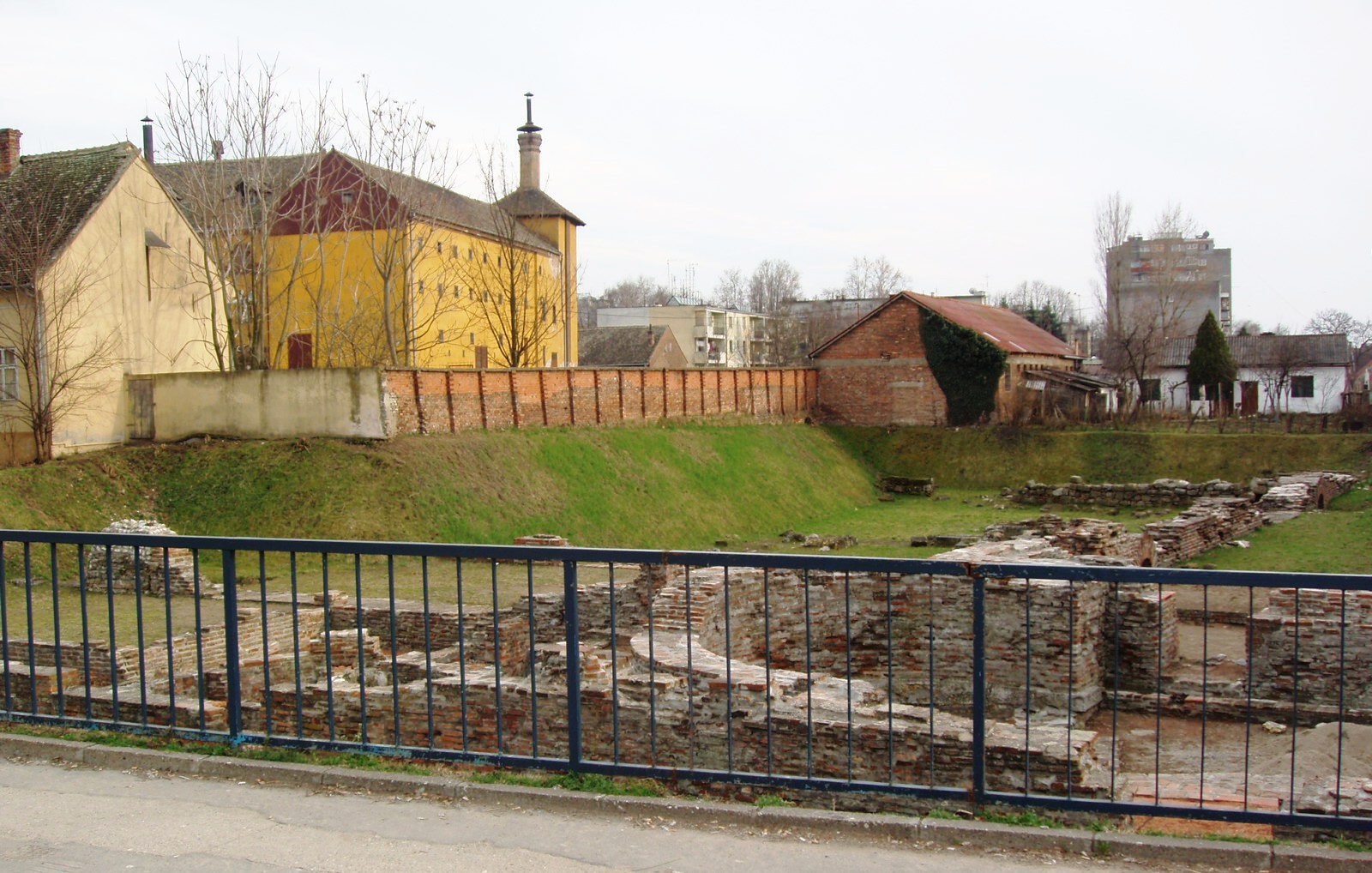 Sremska Mitrovica - The ruins of Imperial Palace of Syrmium